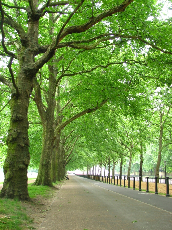 Taken at Constituion Hill, covered with Platanus trees, London